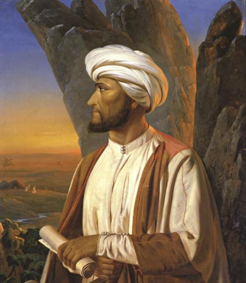 Georg August Wallin (1811–1852), Scandinavian orientalist and explorer. Reproduction of portrait by Robert Wilhelm Ekman, 1853.